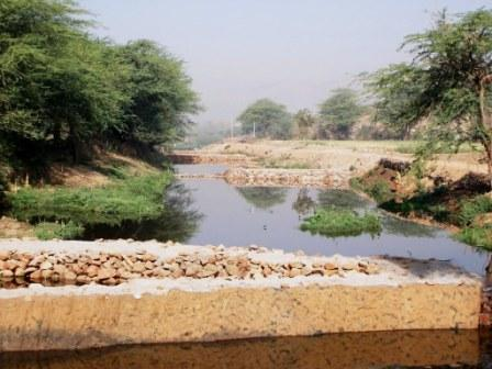 Green Bridge System at Ahar River, Udaipur, India